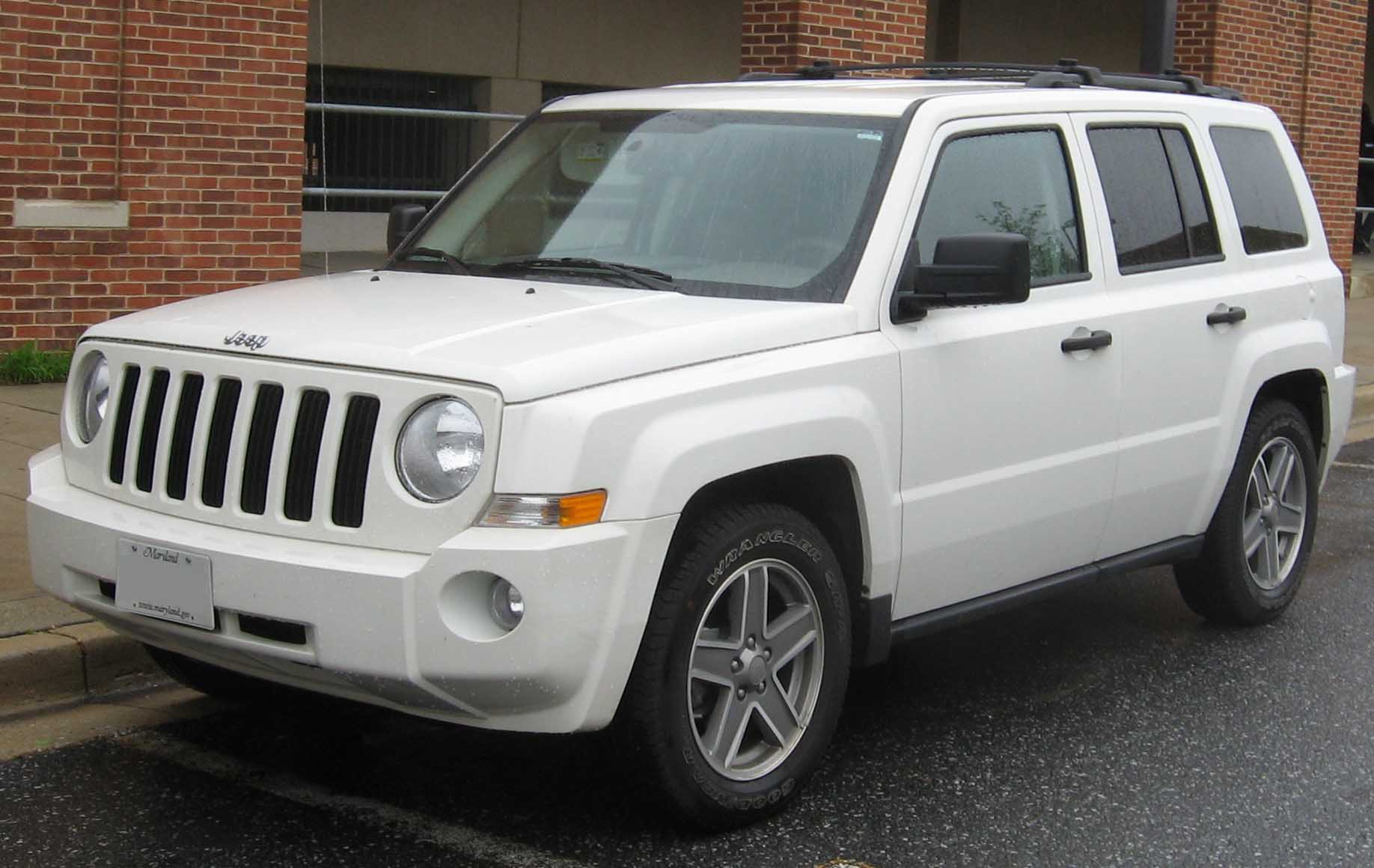 2007-2008 Jeep Patriot photographed in College Park, Maryland, USA.